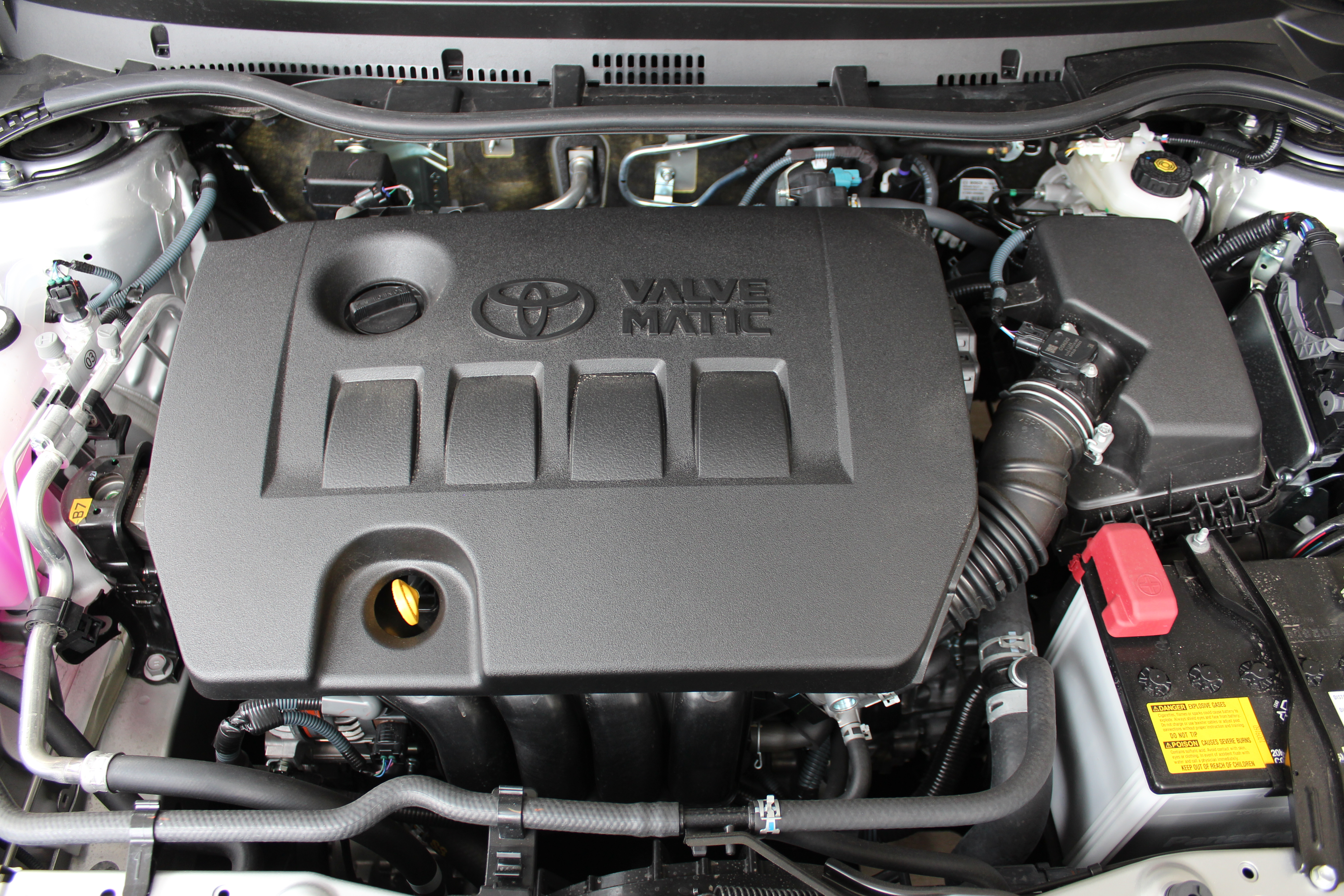 Toyota 2ZR-FAE from a 2017 Corolla iM (US)